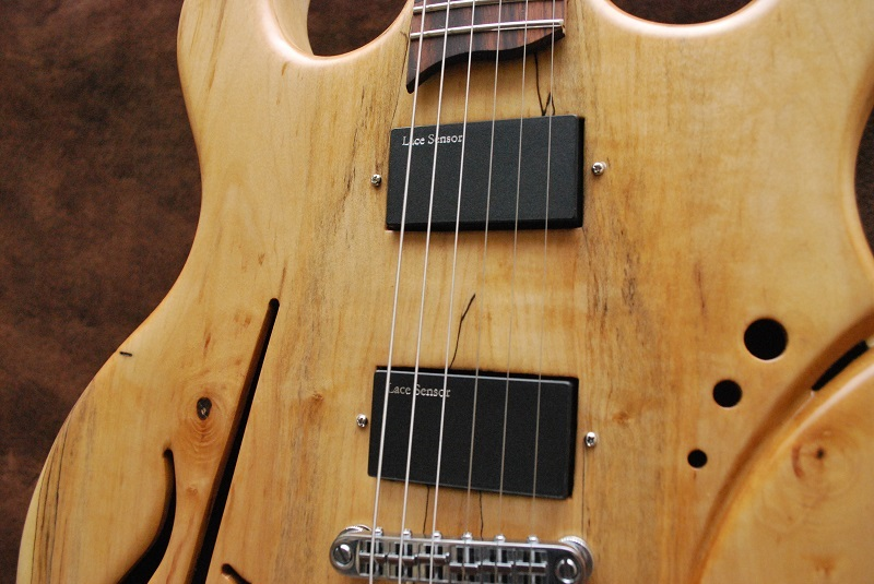 A Nitro-Hemi Lace Sensor on a hand-made guitar. Other information Cropped from the original.